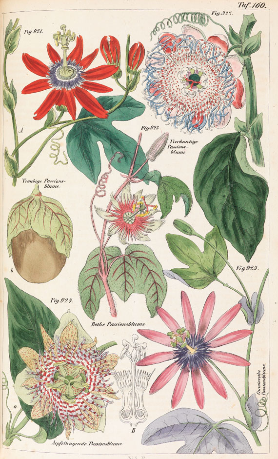 Das Pflanzenreich in vollständigen Beschreibungen aller wichtigen Gewächse dargestellt, nach dem natürlichen Systeme geordnet und durch naturgetreue Abbildungen erläutert. Zweite Ausgabe. 2 Bde. Mit 282 kolor. lithogr. Tafeln. Leipzig, J. Werner 1857. HLdr. d. Zt. Kl.-4to. 1 Bl., 488 S.; S. 489-1010, 1 Bl.